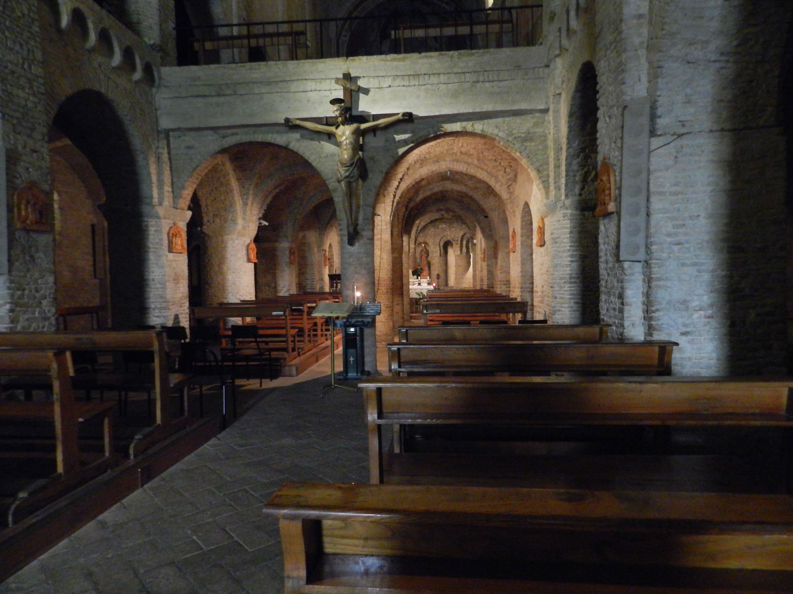 Interior of the basilica of Santa Maria a Piè di Chienti, Montecosaro, Italy